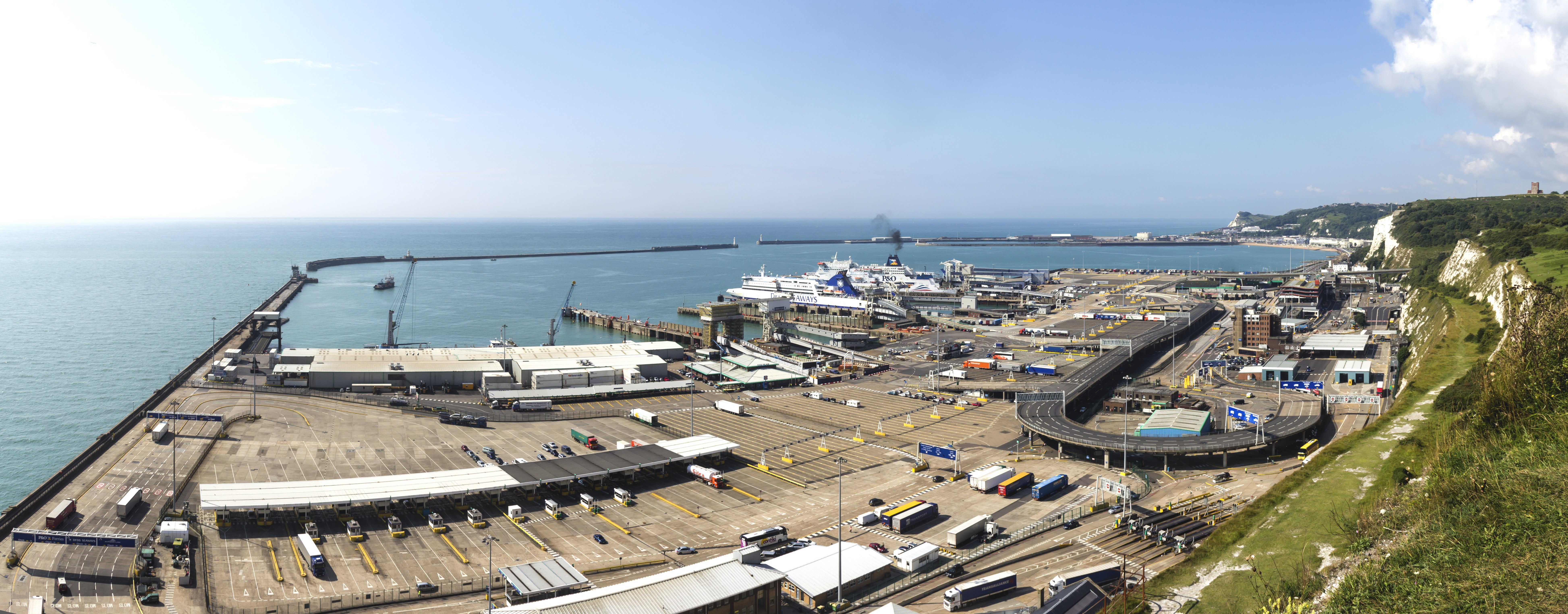 Port of Dover - view from the White Cliffs